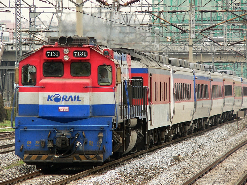 KORAIL 7100series diesel-electric locomotive